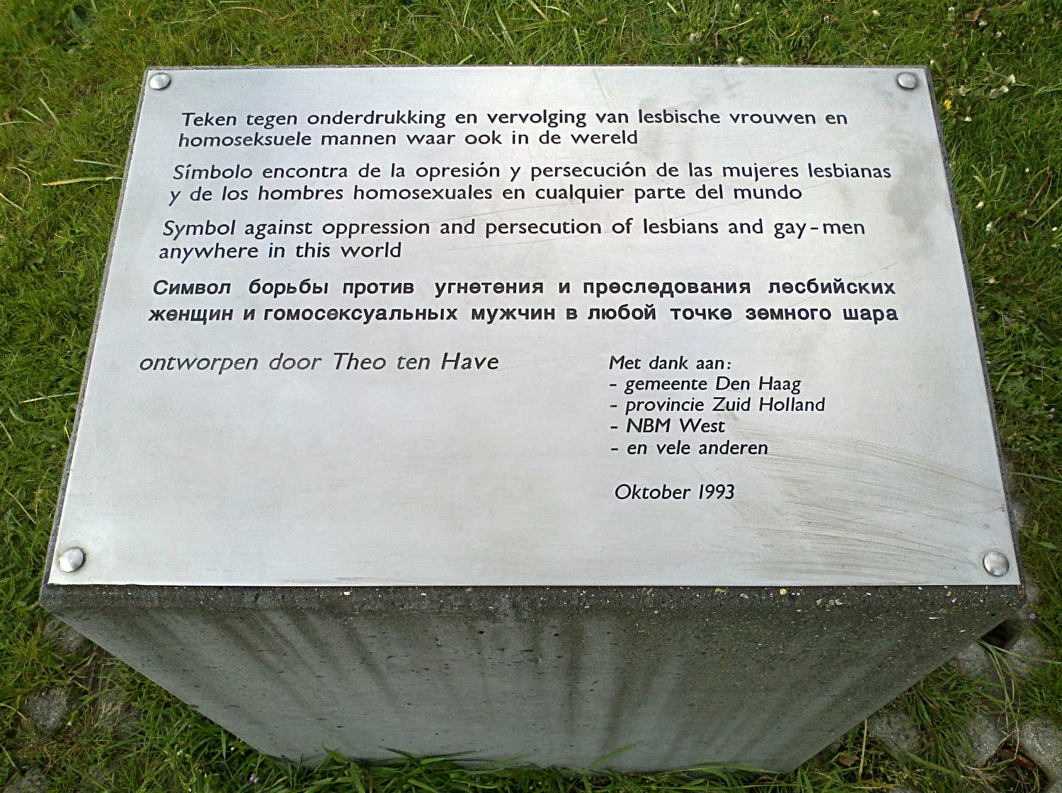 Plaque with inormation in four languages, next to the memorial sculpture of the International Homomonument, The Hague.